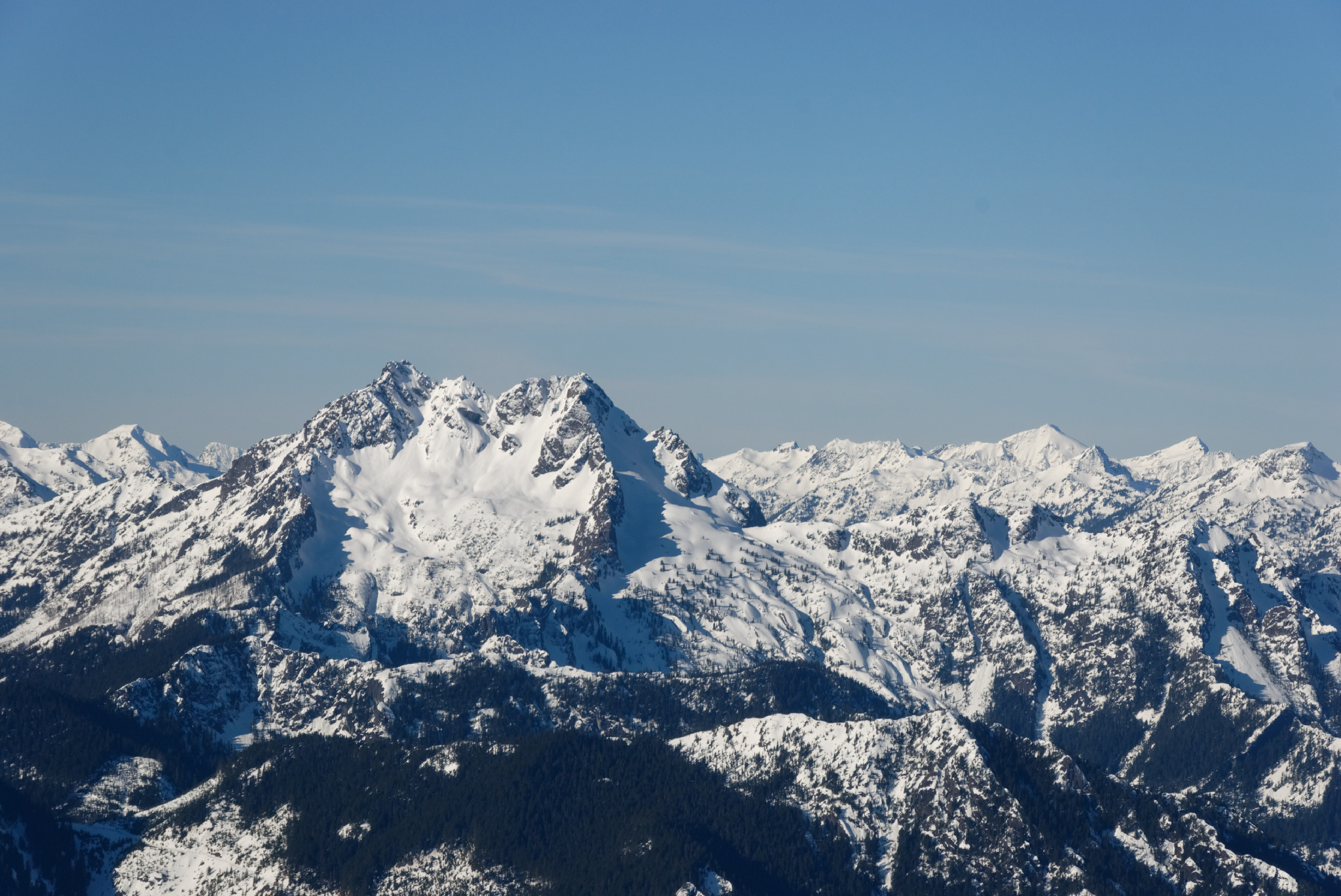 Olympic Mountains near Hood Canal, Washington, USA.